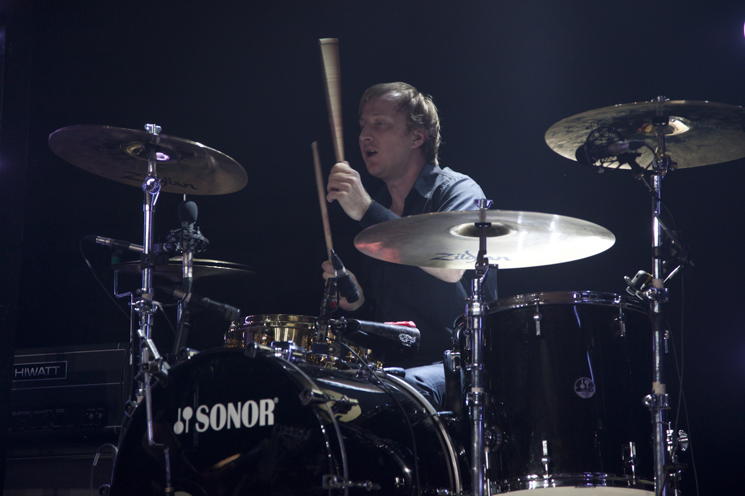 Danko Jones in Barcelona, Spain.